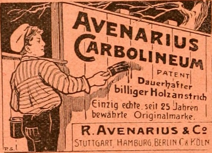 German advertisement for Carbolineum, published in "Allgemeine Fischerei-Zeitung" (1902).